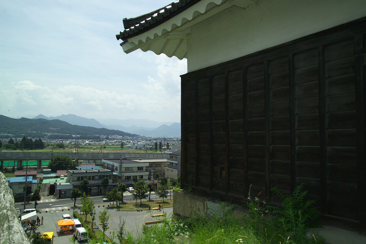 City of Ueda, Nagano Prefecture, Japan as viewed from the West Turret (西櫓) (foreground building) of Ueda Castle